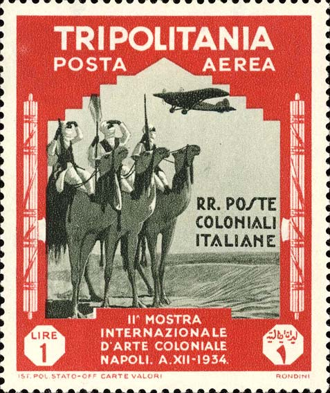 Three men riding camels through the Libyan desert.